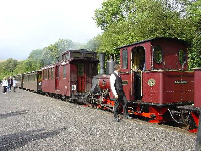 Brecon Mountain Railway. Pontsticill Station